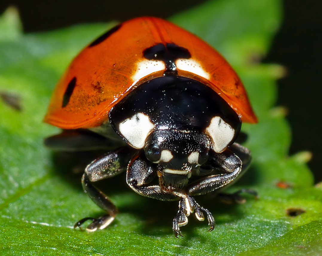 This image shows a 0.22 inch (5.7 mm) wide Sevenspotted Lady Beetle (Coccinella septempunctata).